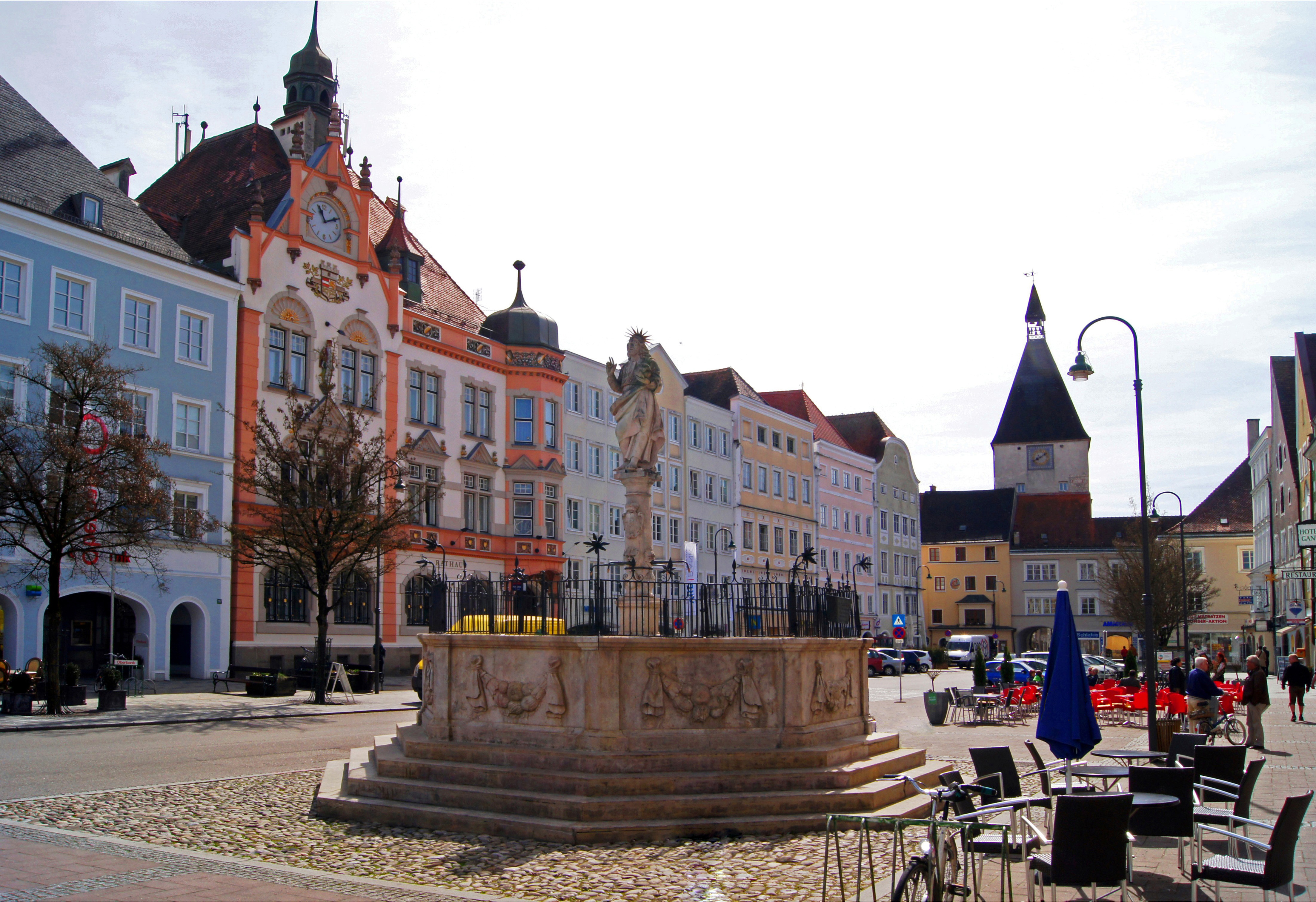 City Center Braunau am Inn